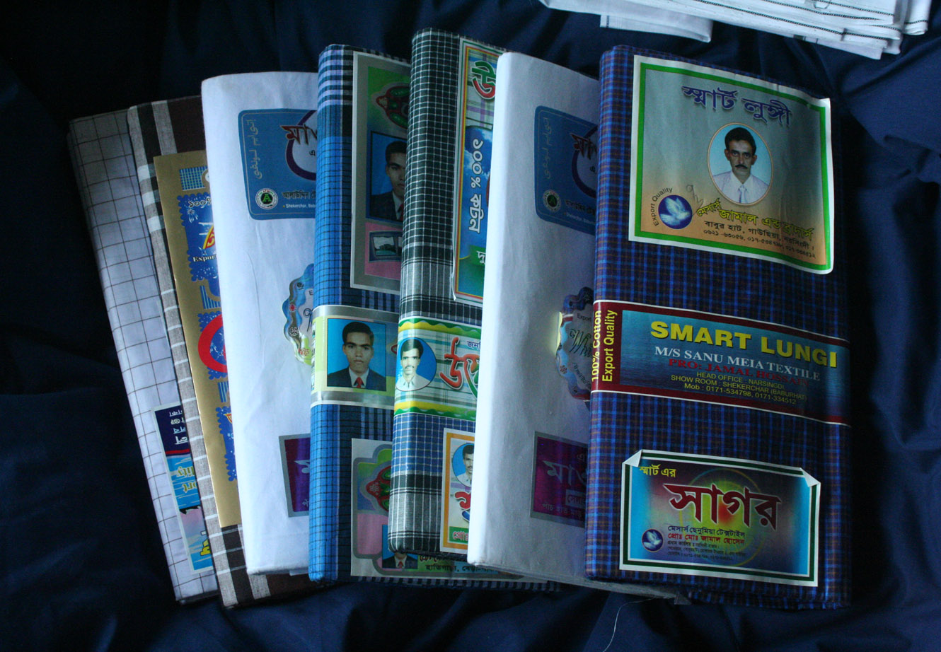 Lungi, Lungis